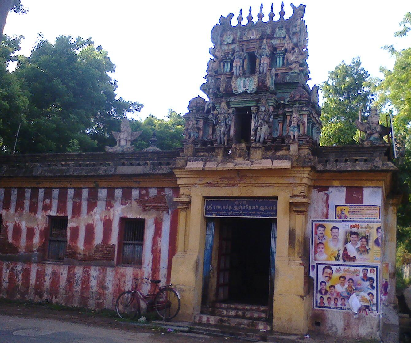 Kumbakonam Ramabhakta anjaneyartempleகும்பகோணம் ராமபக்த ஆஞ்சநேயர் கோயில்